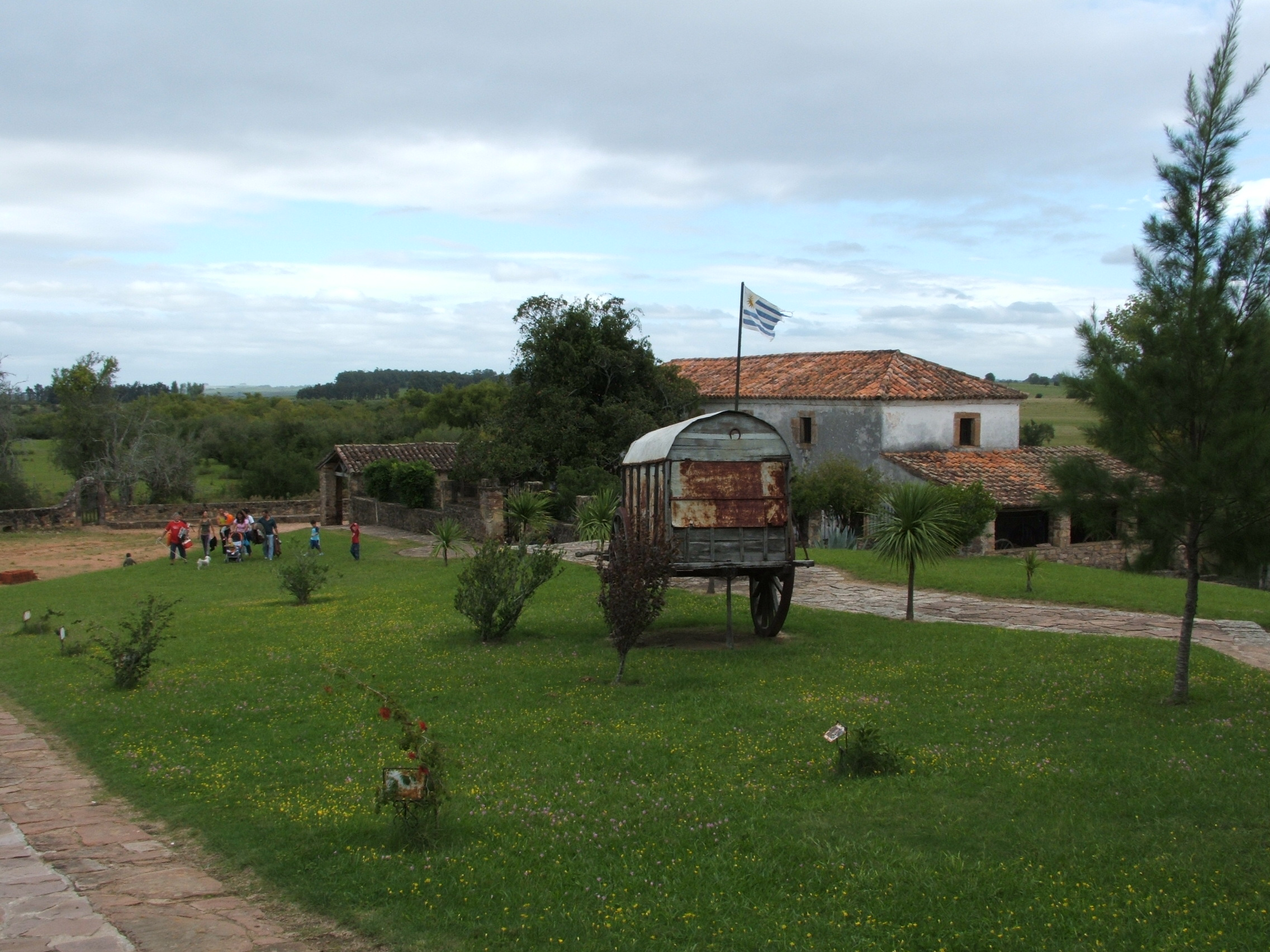 An old cart in front of Posta del Chuy, Melo, Uruguay